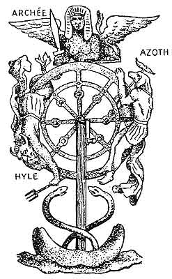 "The Tenth Key of Tarot" is taken from the book by Eliphas Levi, La Clef des grands mysteres.